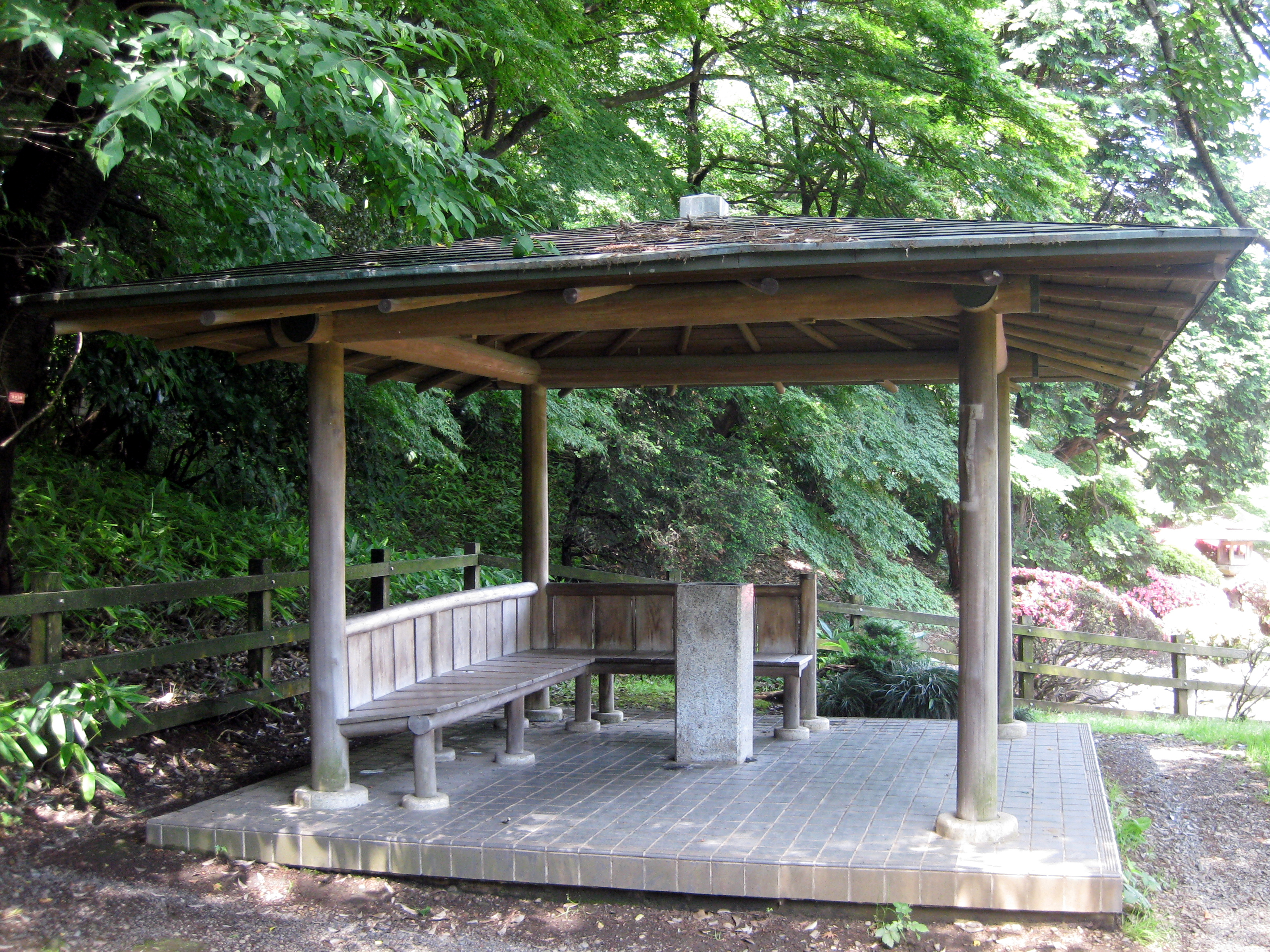 Bench in Shinjuku Gyoen